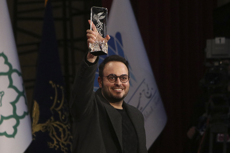 Closing ceremony of the 38th annual Fajr Film Festival at the Milad Tower conference hall on February 11, 2020, in Tehran, Iran